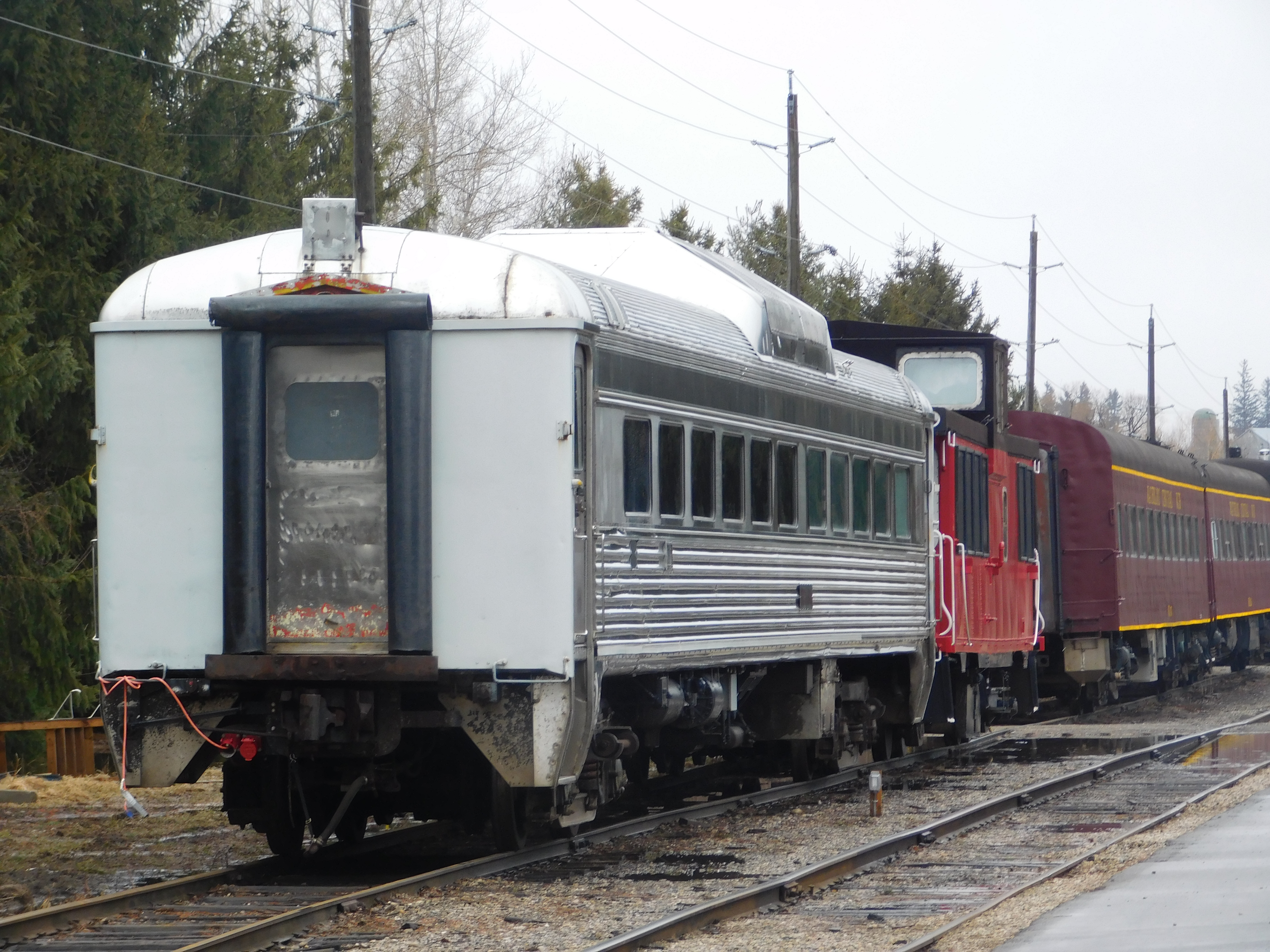 Equipment for the Waterloo Central Railway in St. Jacobs, Ontario.